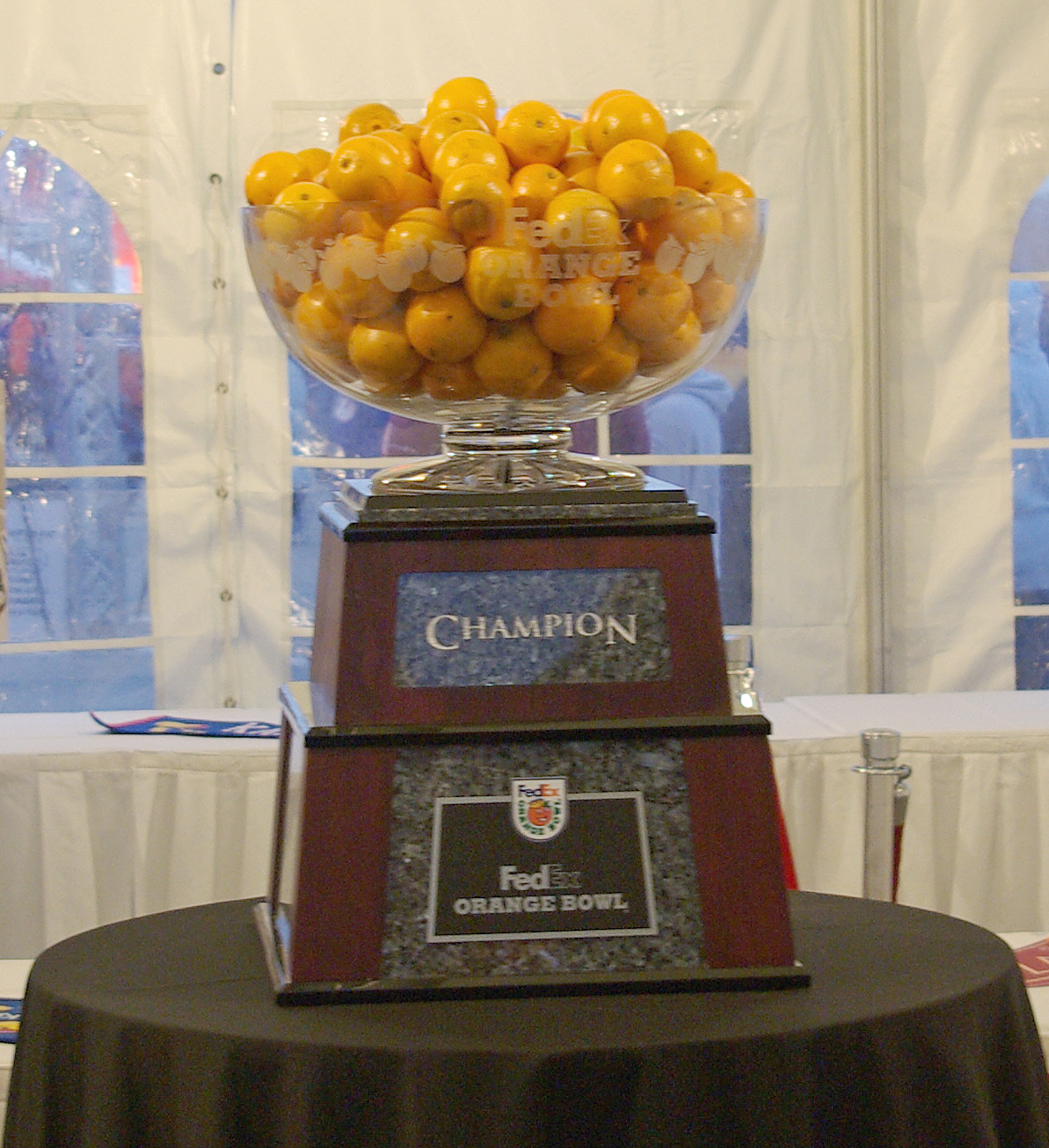 The trophy for the 2008 Orange Bowl, on display at the Orange Bowl Fanfest prior to the game.